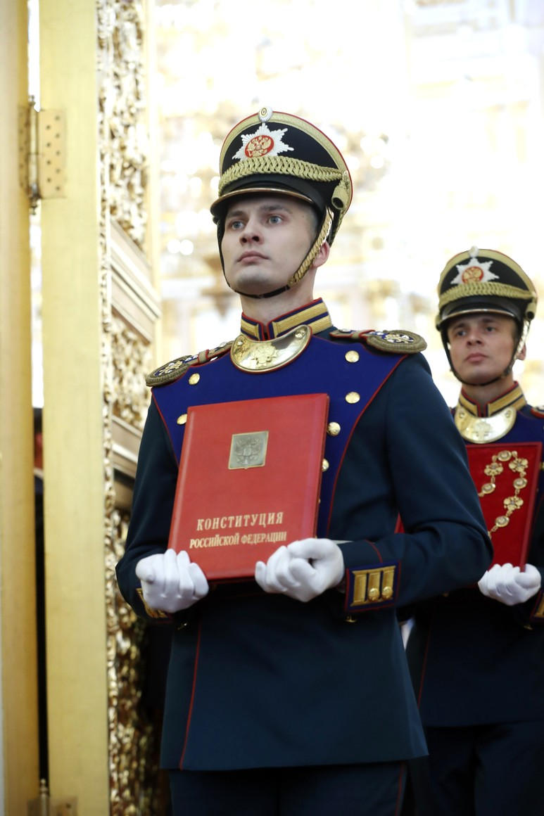 Vladimir Putin has been sworn in as President of Russia (2018-05-07)